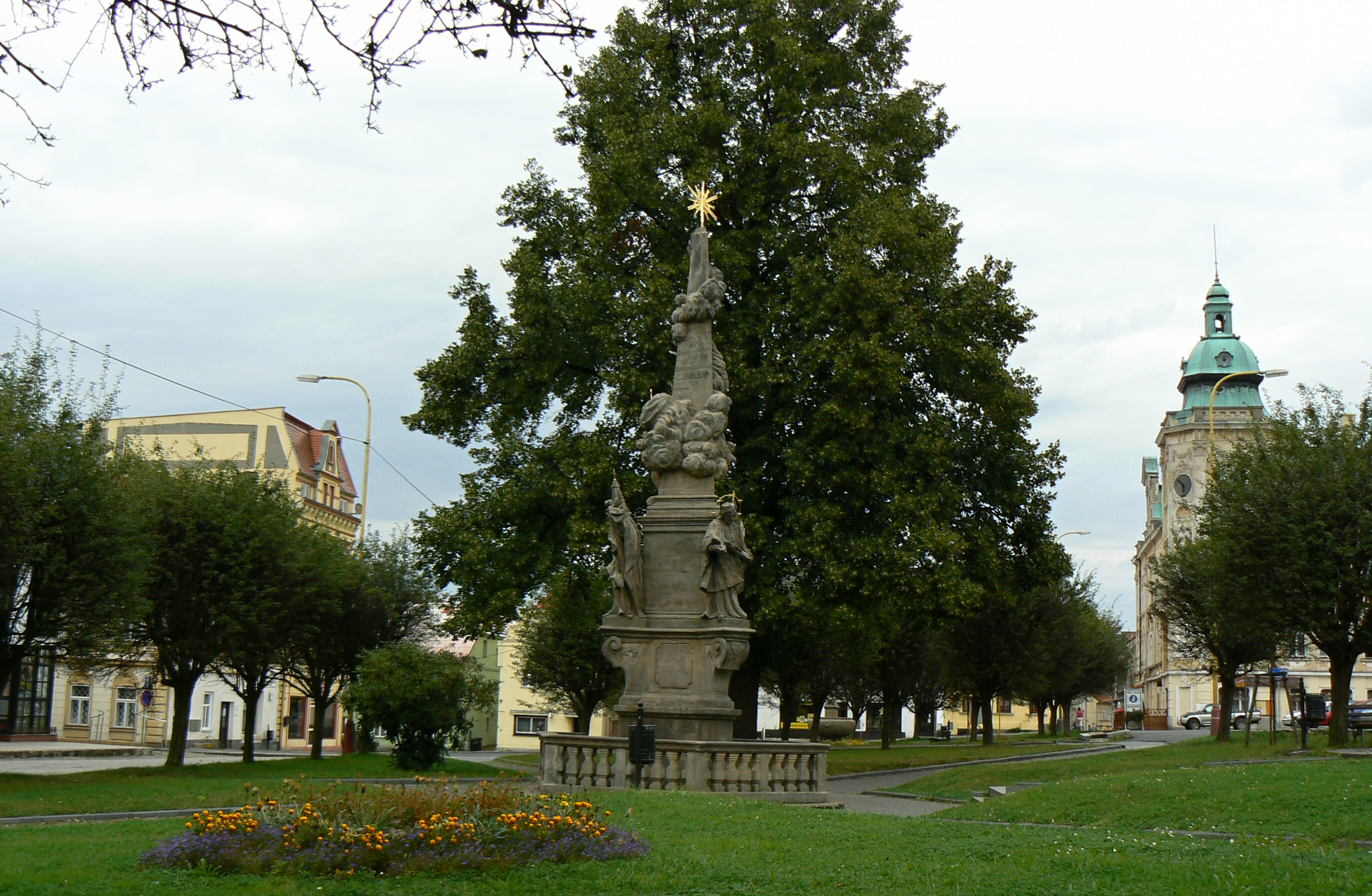 Tree (Small-Leaved Lime - Tilia cordata) in square in Šluknov, Děčín District, Czech Republic